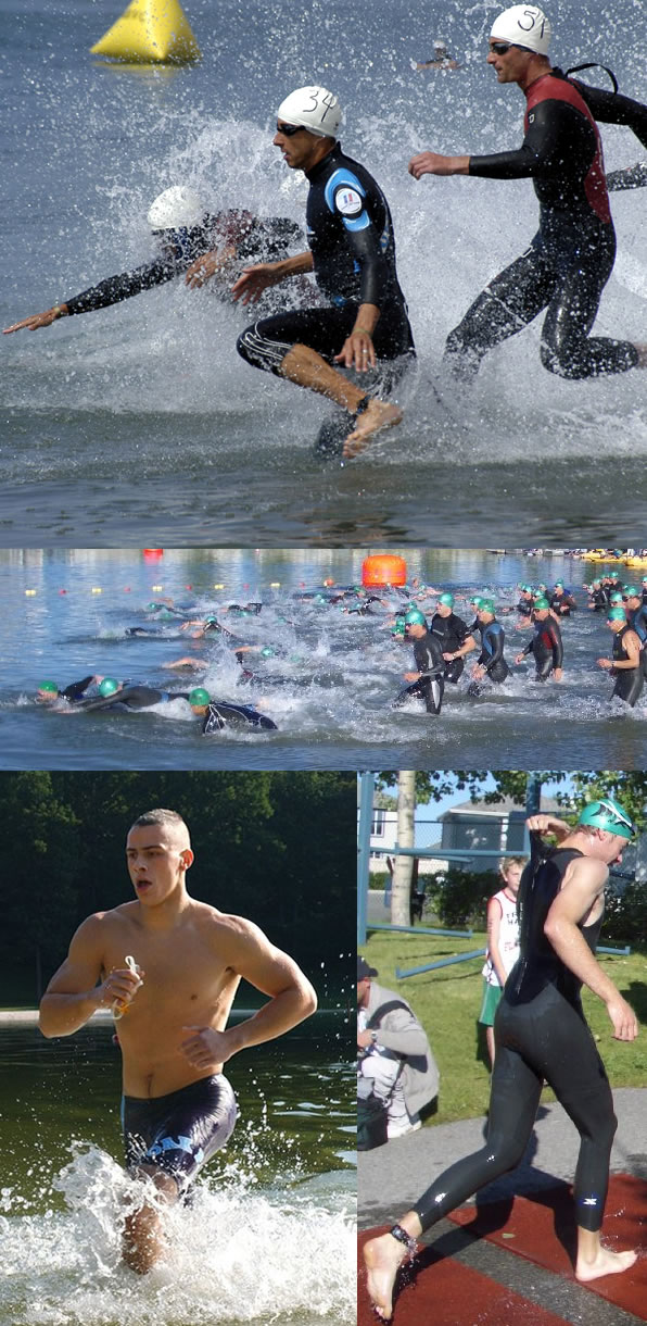 made specific for the triathlon wikipedia page, made up of licenses images from wikimedia as well as a few of my own photos which I release to public domain